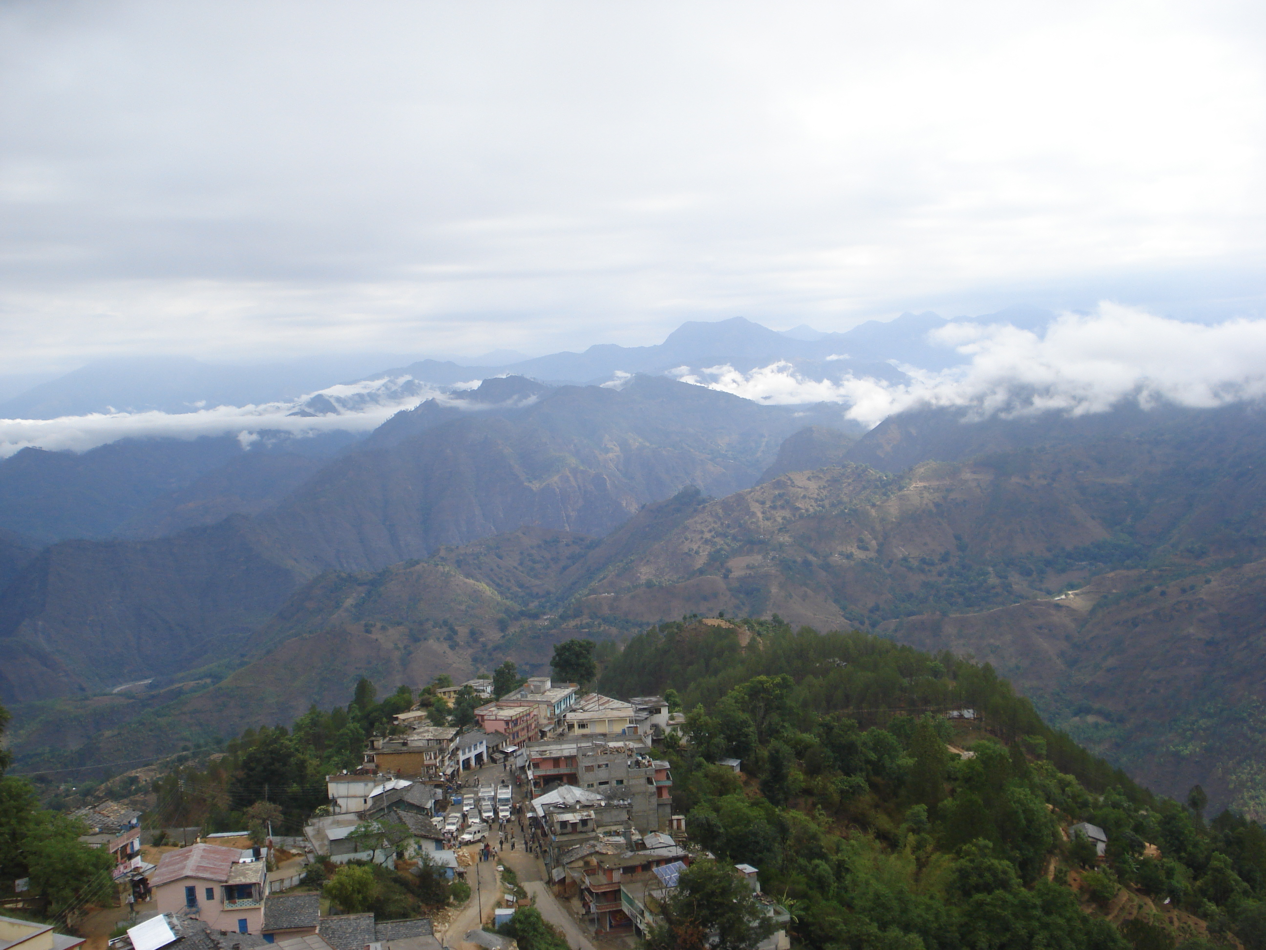 Gothalapani